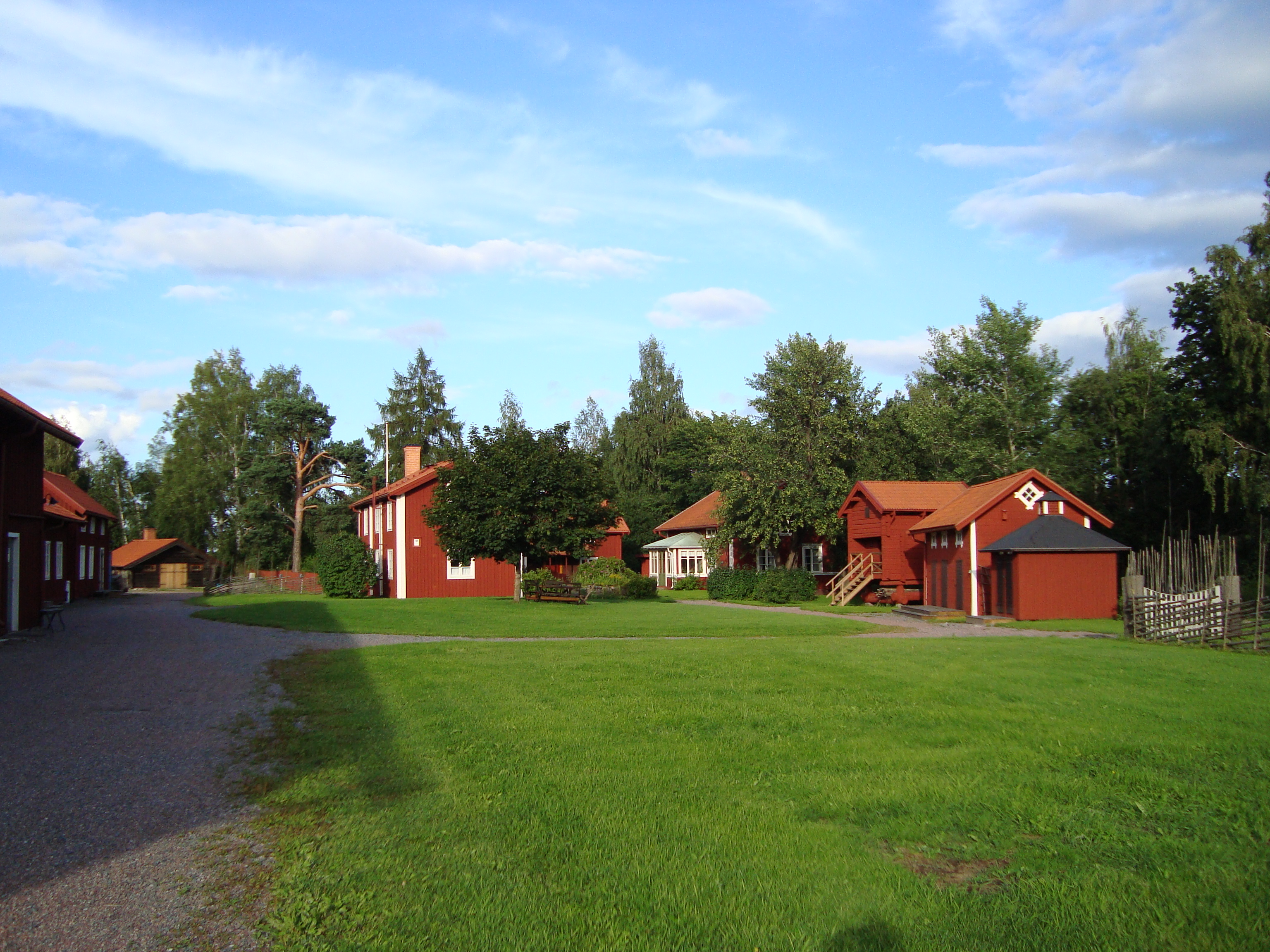 Matjes Emils gård (estate), Mjälga, Borlänge, Sweden